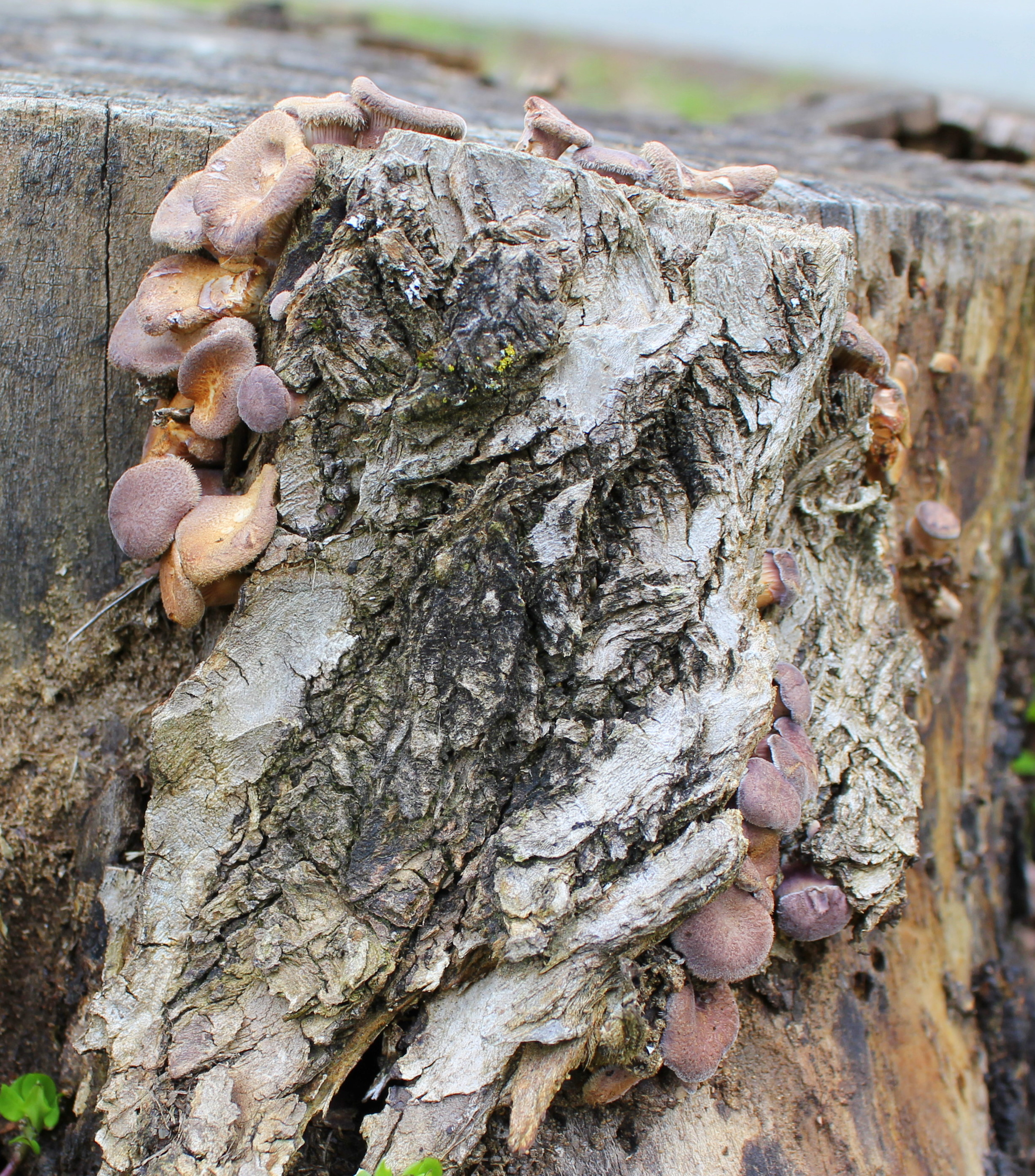 Lentinus strigosus (Schwein.) Fr. Image location: Alamance Co., North Carolina, USA Recognized by sight For more information about this, see the observation page at Mushroom Observer.